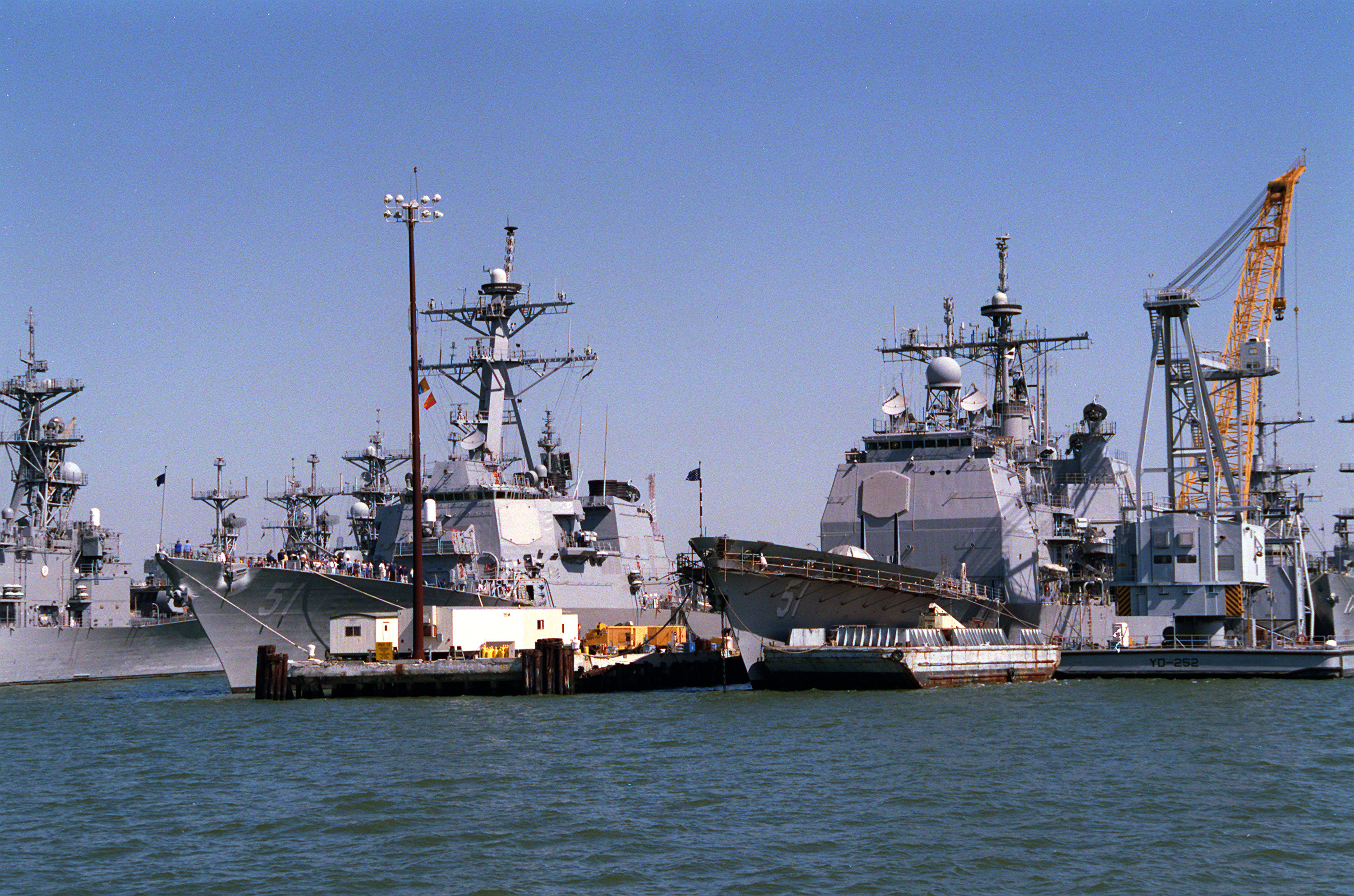 A port bow view of the guided missile destroyer USS ARLEIGH BURKE (DDG-51) and the guided missile cruiser USS THOMAS GATES (CG-51) moored at the destroyer and submarine piers. Both ships are equipped with the Aegis radar system. ocation: NAVAL STATION/NORFOLK Date Shot: 10/2/1993 Date Posted: unknown VIRIN: DN-SC-94-00027